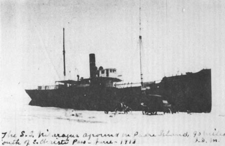 Photos and maps related to Padre Island. The wreck of SS Nicaragua on Padre Island June 1913.